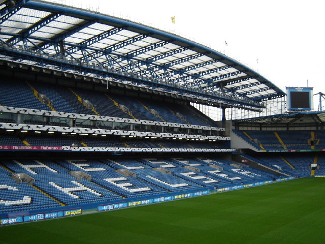 Stamford Bridge Stadium, Fulham. Home to Chelsea football club